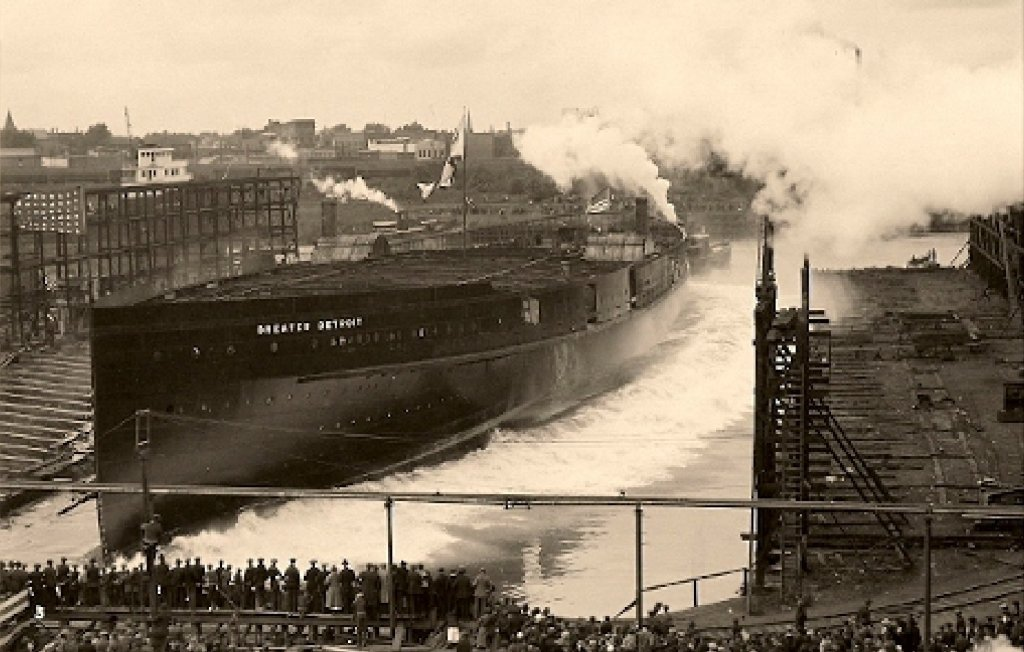 The SS Greater Detroit, a steamship for the Detroit and Cleveland Navigation Company, being launched from the American Shipbuilding Company shipyard in Lorain Ohio.